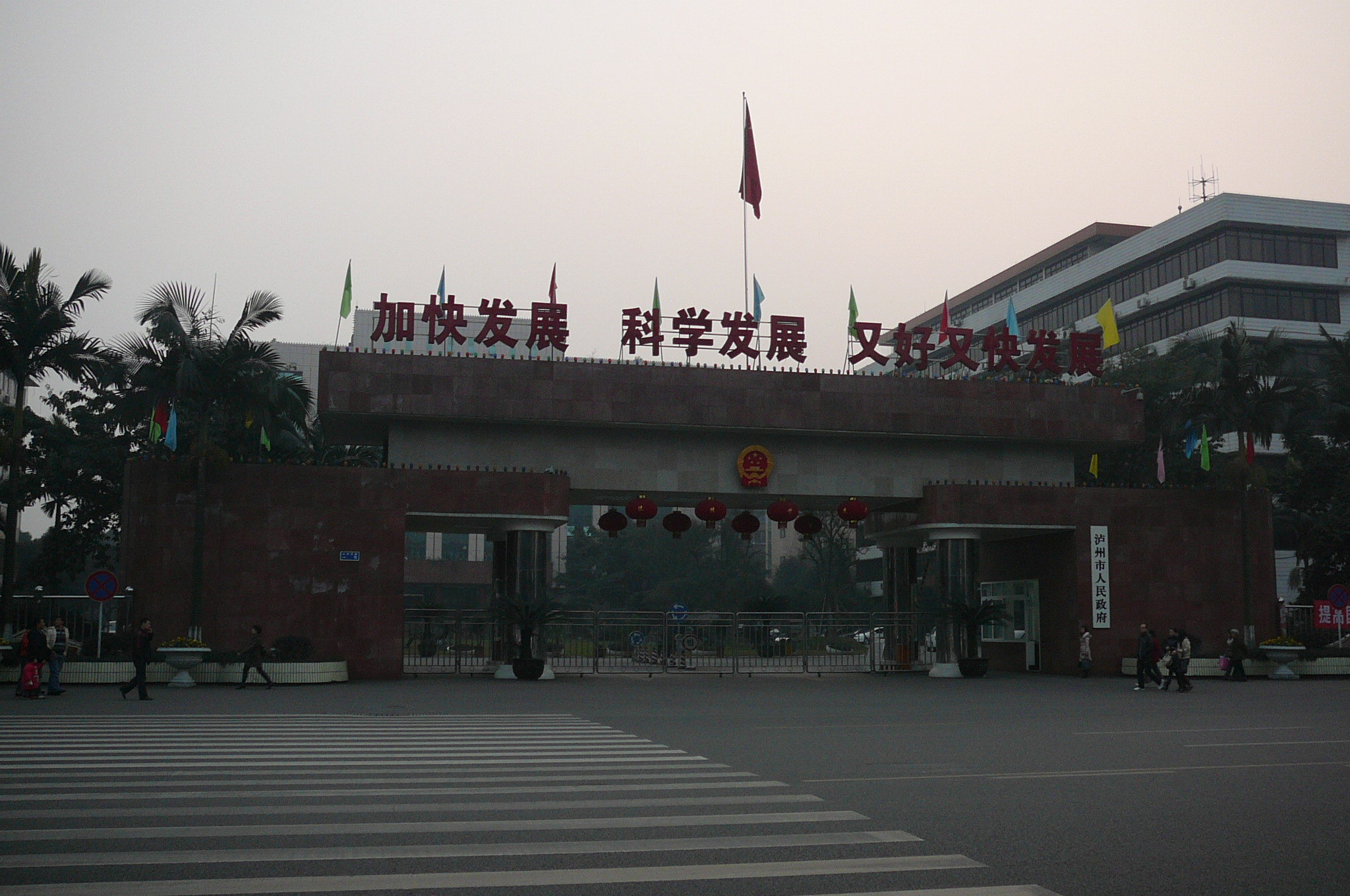 Government of Luzhou Municipality